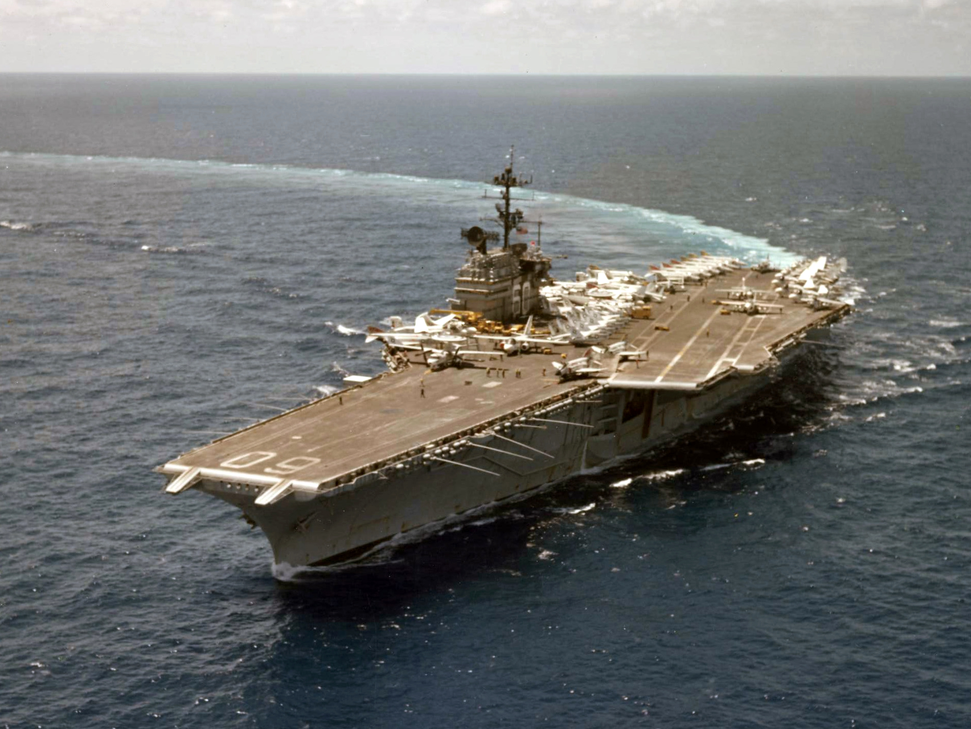 The U.S. Navy aircraft carrier USS Saratoga (CV-60) underway in the Atlantic Ocean, circa 1975.